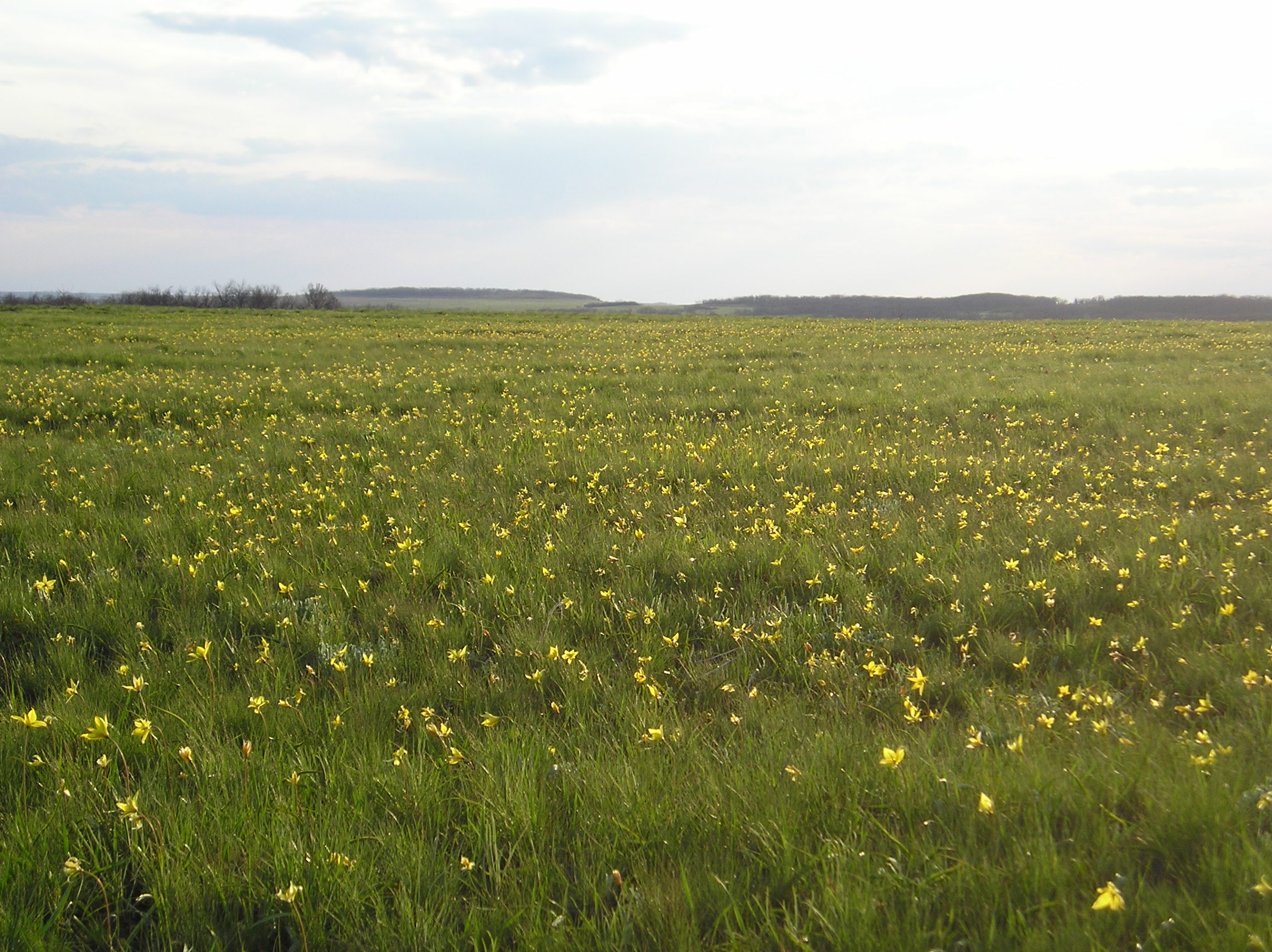 Spring steppe. Natural Park "Don", Ilovlinsky District, Volgograd Region.